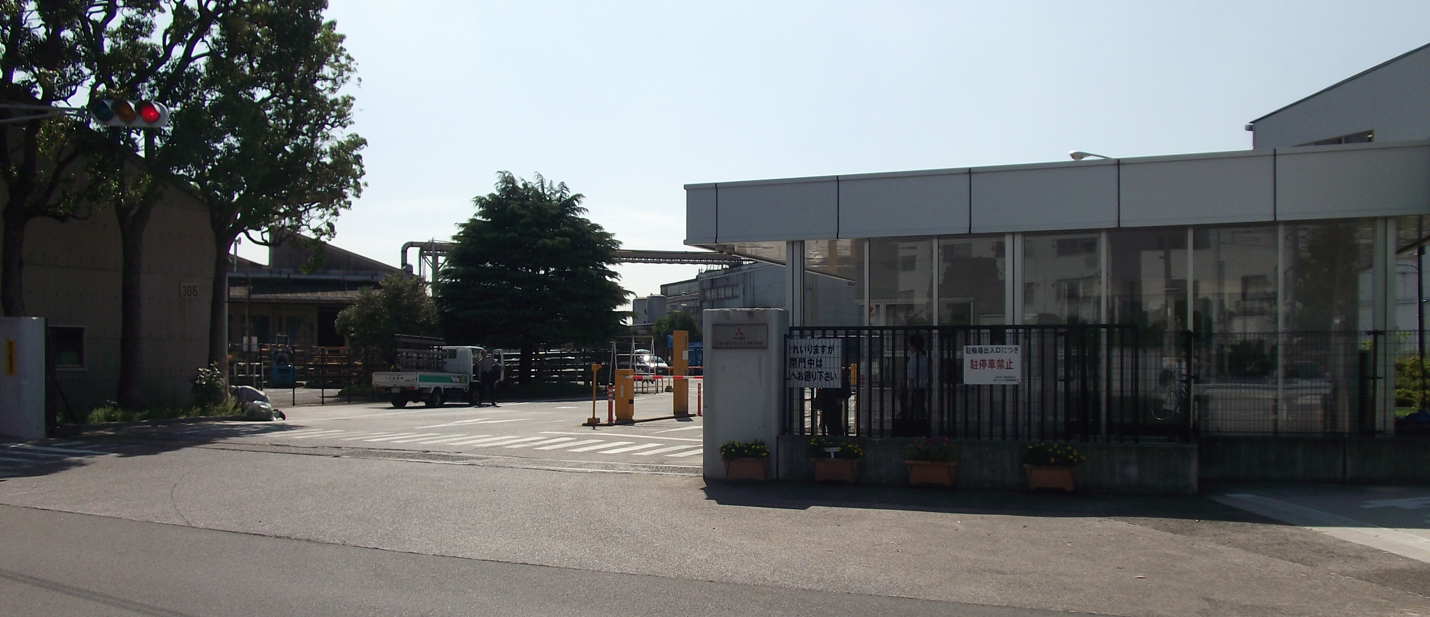 Mitsubishi Fuso Kawasaki I factory.